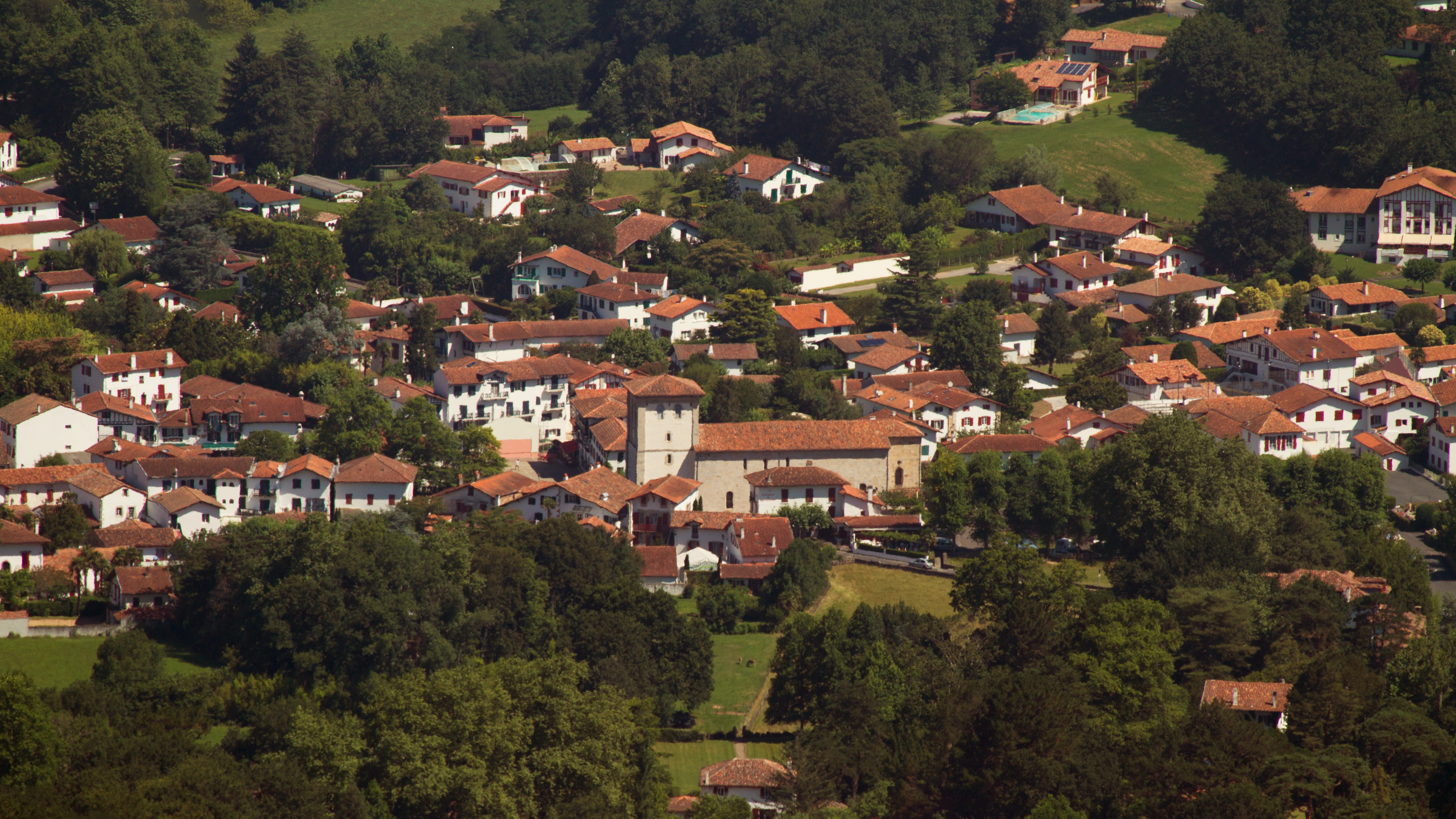 The village of Ascain, seen from the top of Larrun.